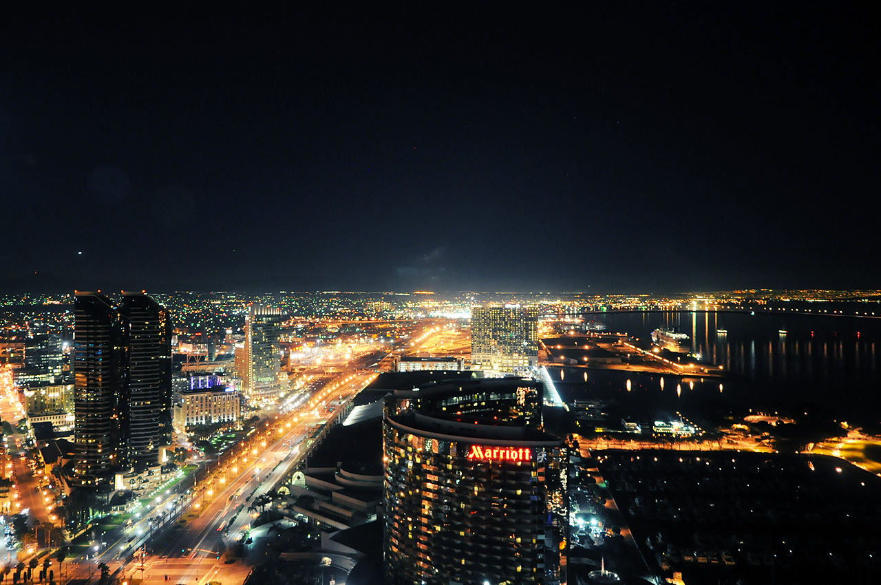 San Diego Cityscape looking down Harbor Drive.